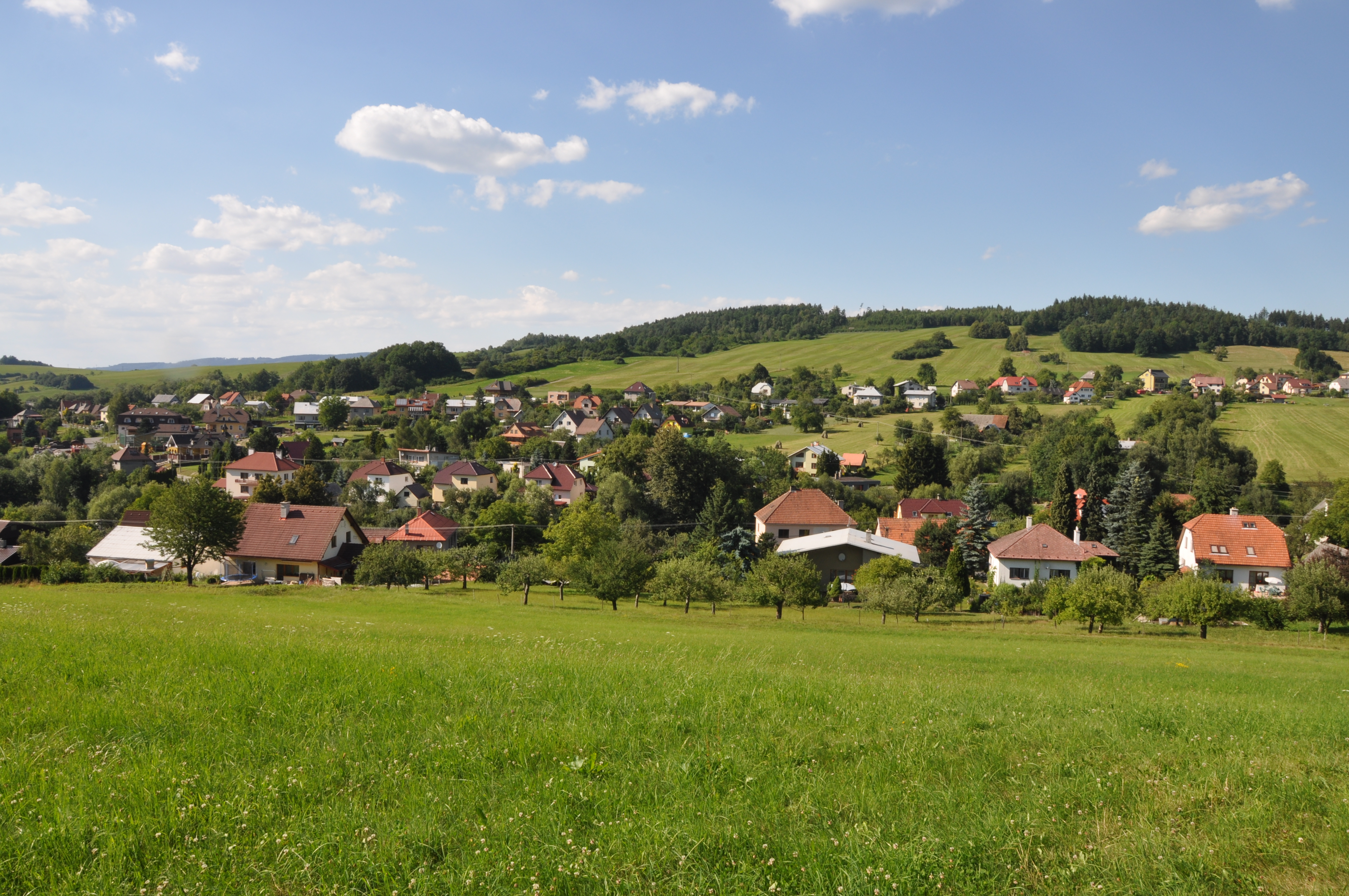 Vidče, Vsetín District, Czech Republic.